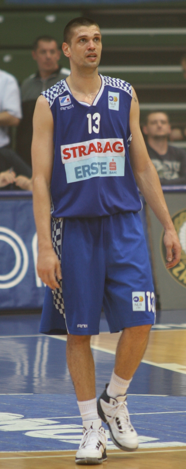 Tomislav Ružić, player of Zadar, in third match of Croatian finals season 2009/2010